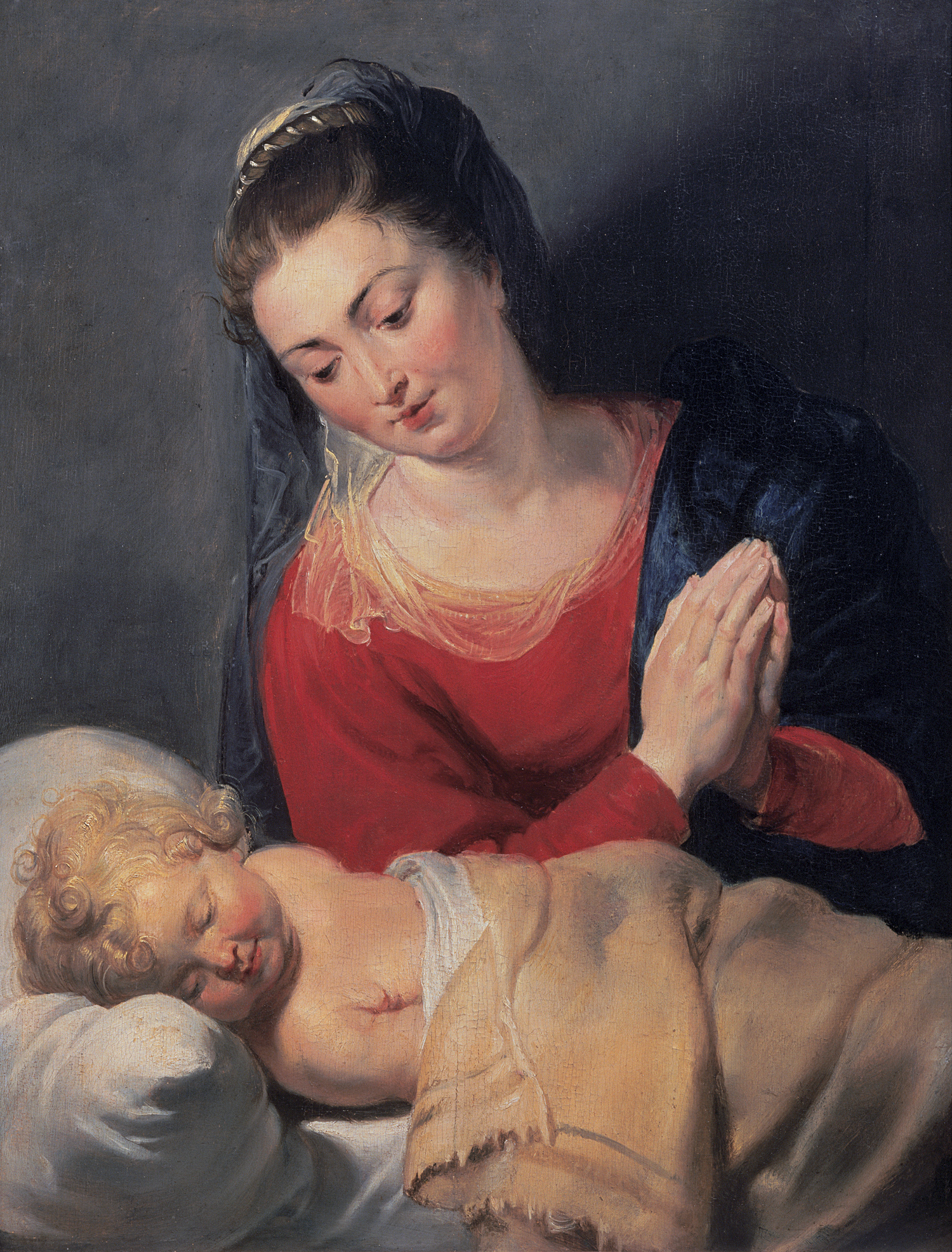 Mary and the infant Christ oil on panel 65,5 x 50,5 cm circa 1618